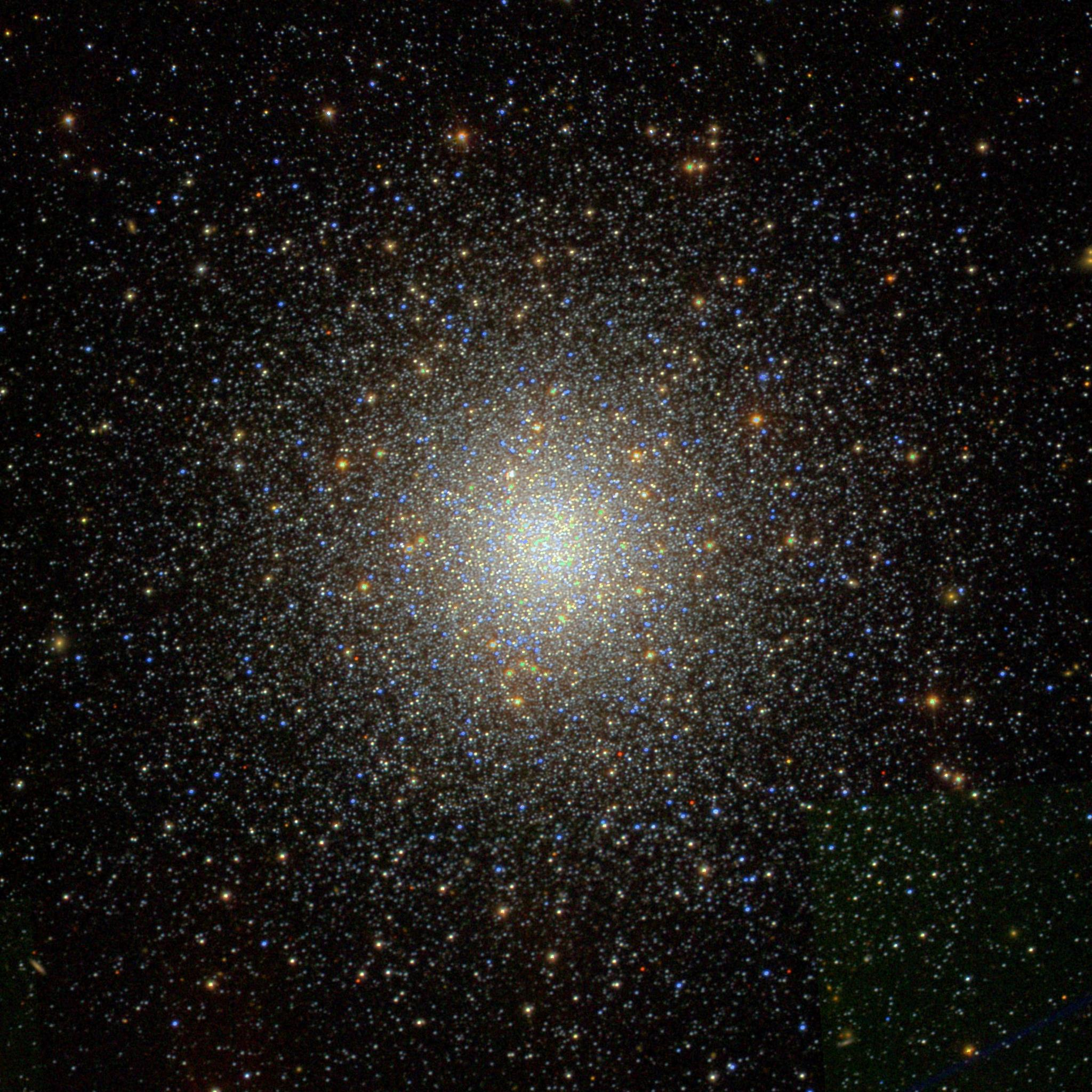 Angle of view: 12' x 12' (0.3515625" per pixel), north is up.